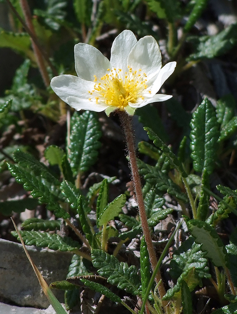 39 Dryas octopetala